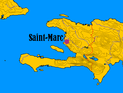 Location of Saint-Marc, Haiti.